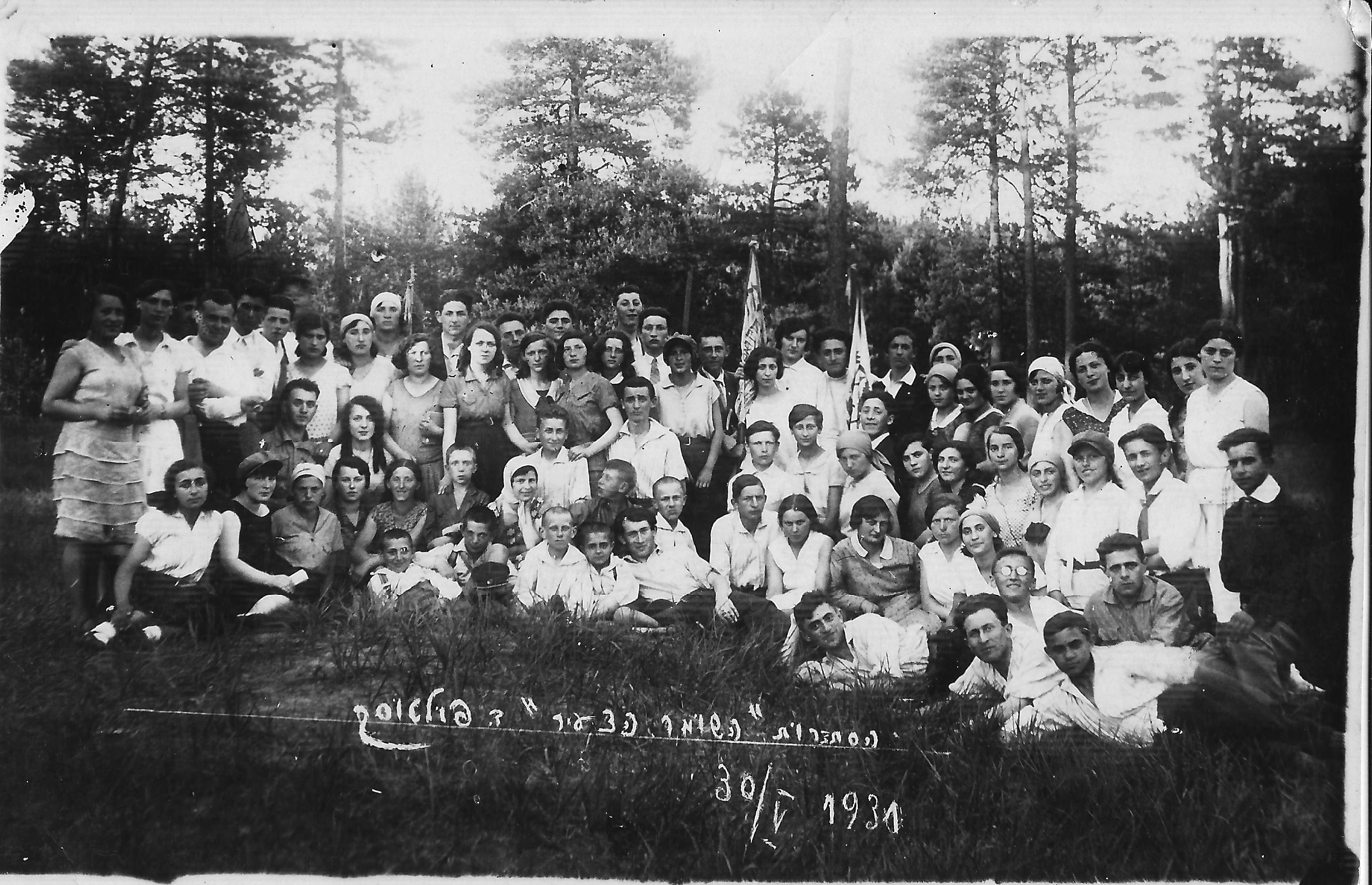 Group of young Jews of the youth organization "Hashomer Hatza'ir" in Pultusk, Poland